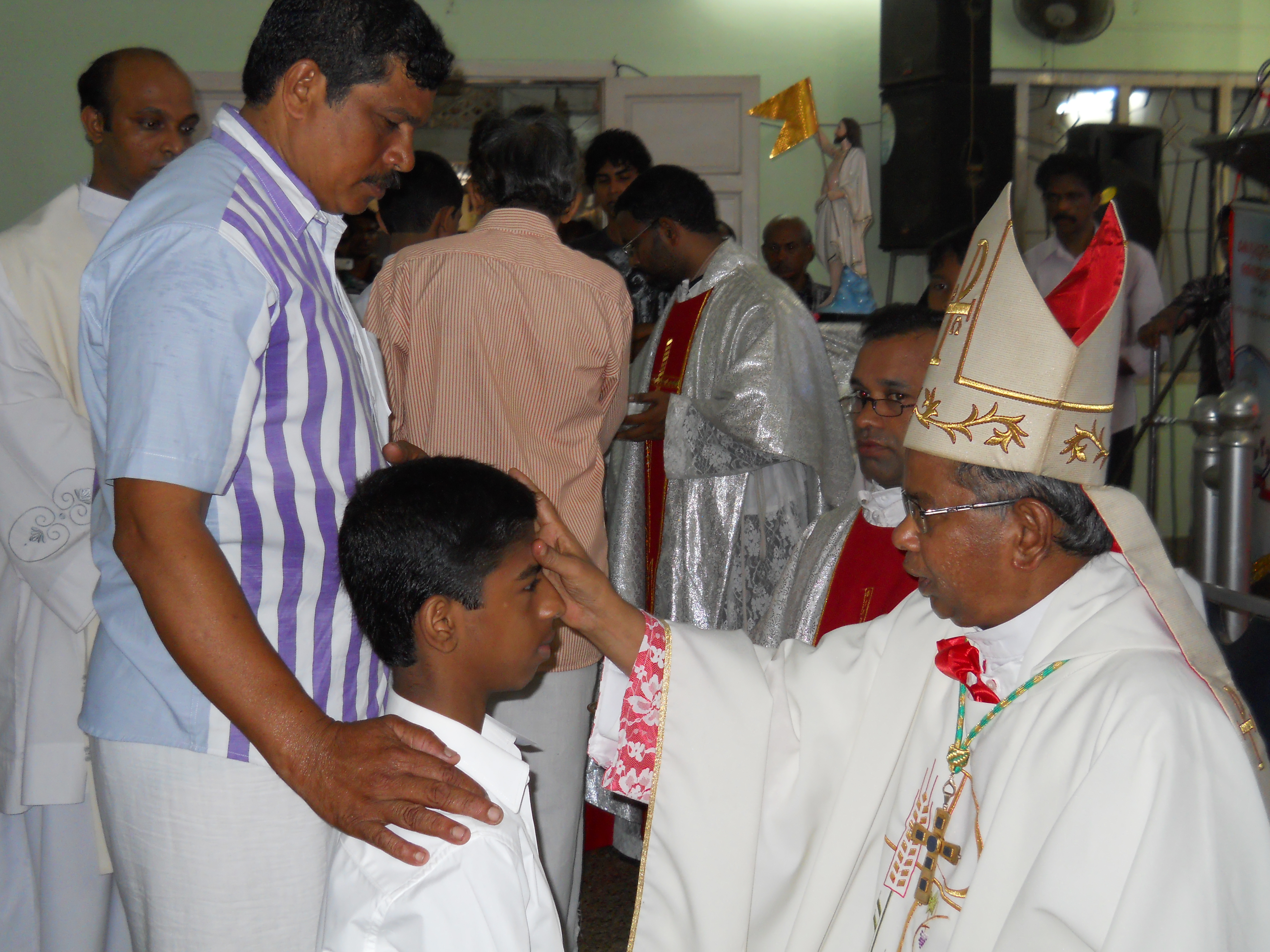 Bishop of Kottappuram Rt. Rev. Dr Joseph Karikkassery at Don Bosco Church on 22 Apr 2012 at Confirmation Ceremony. Also seen is Fr. Jackson, vicar of the church